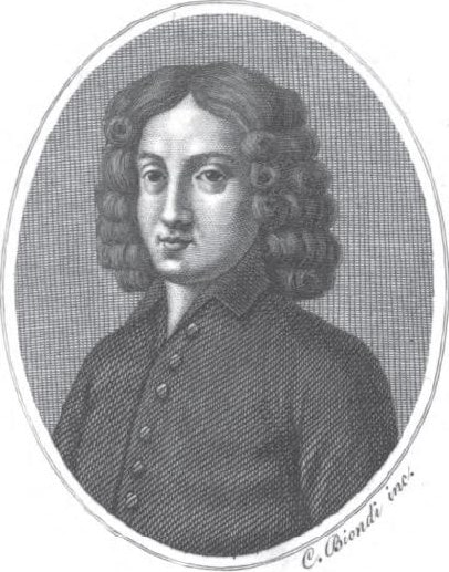 Filippo Paruta, Sicilian numismatist and archaeologist